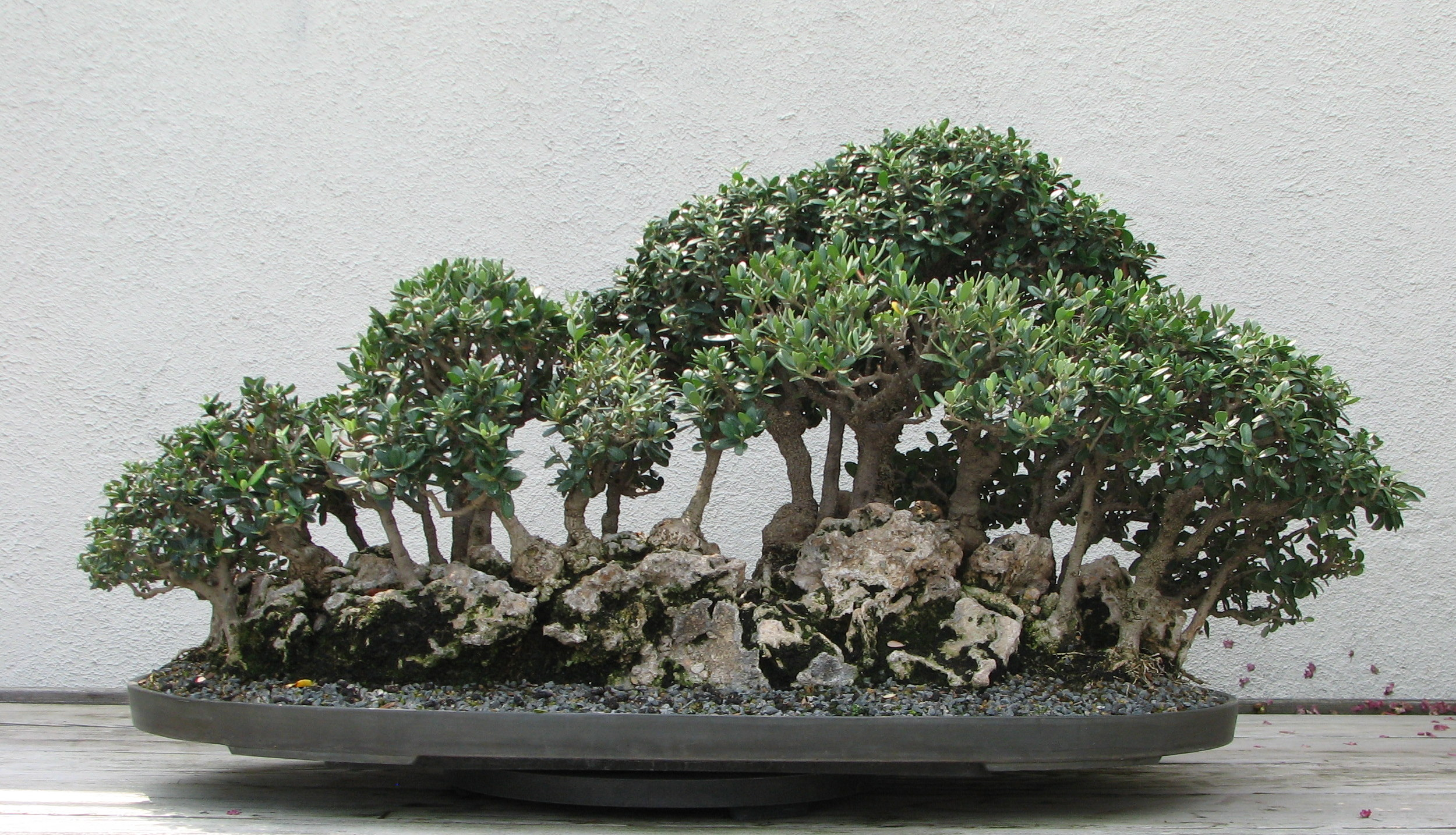 A European Olive (Olea europaea) bonsai on display at the National Bonsai & Penjing Museum at the United States National Arboretum. According to the tree's display placard, it has been in training since 1970. It was donated by Melba Tucker.